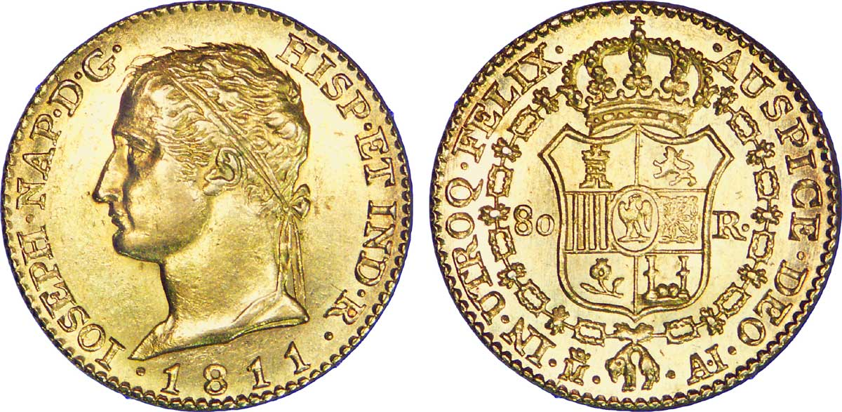 80 Reales en or à l'effigie de Joseph Napoléon, 1811